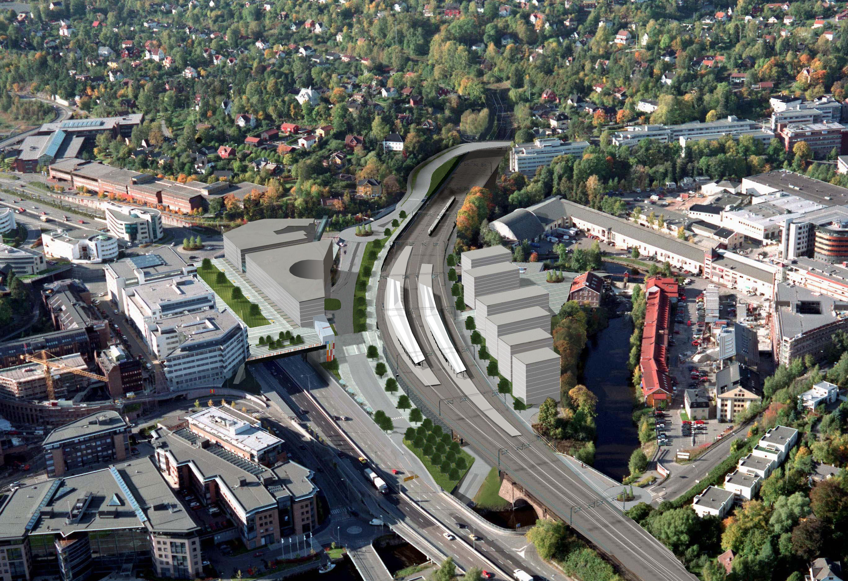 Fremstilling av ny Lysaker stasjon / Graphical presentation of new Lysaker station